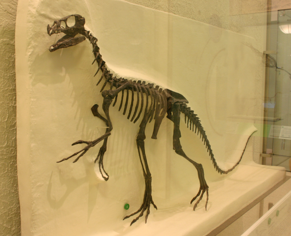 Ornitholestes hermanni at the American Natural History Museum.